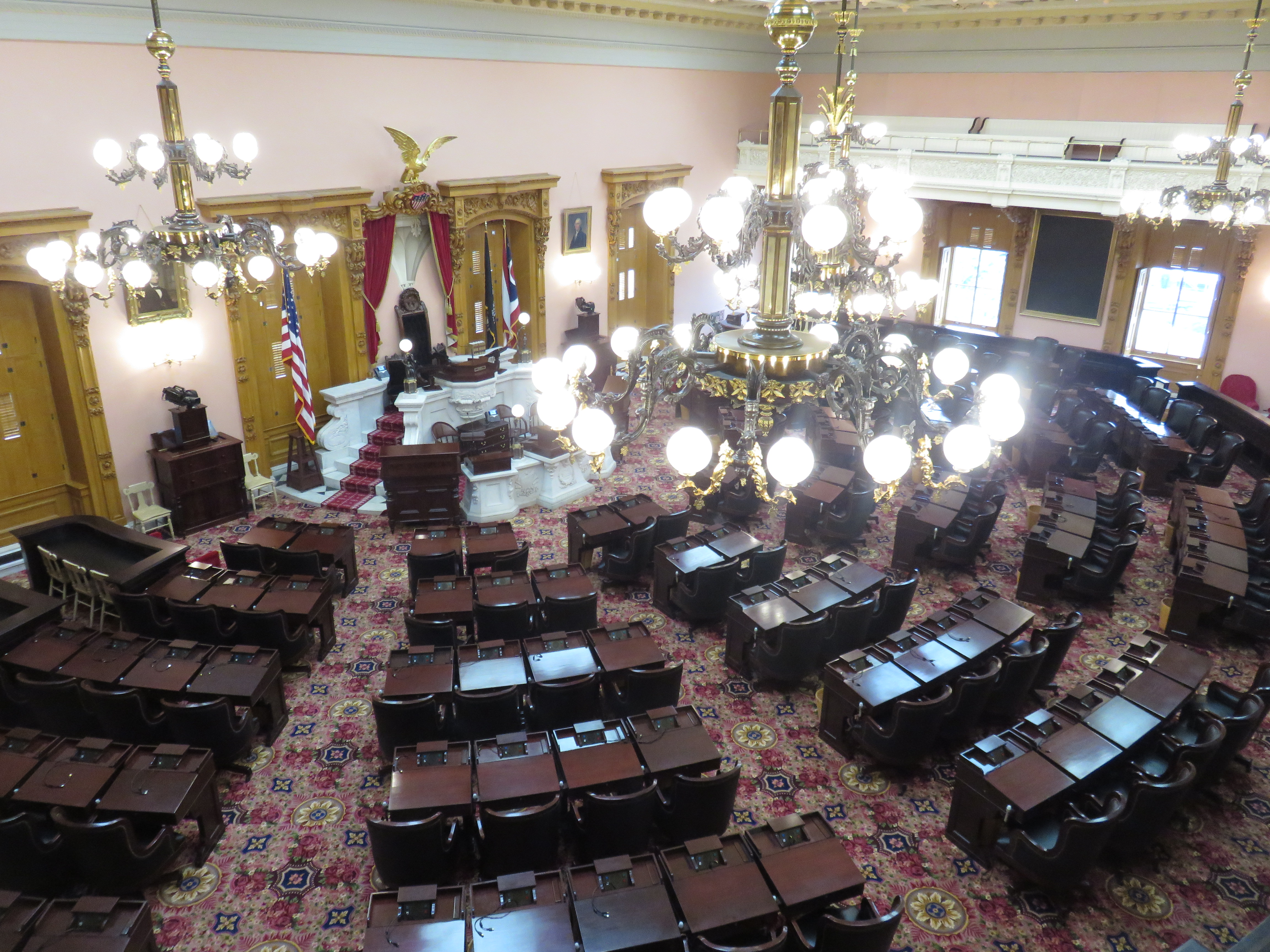 Ohio House of Representatives Chamber in the Ohio Statehouse in 2018